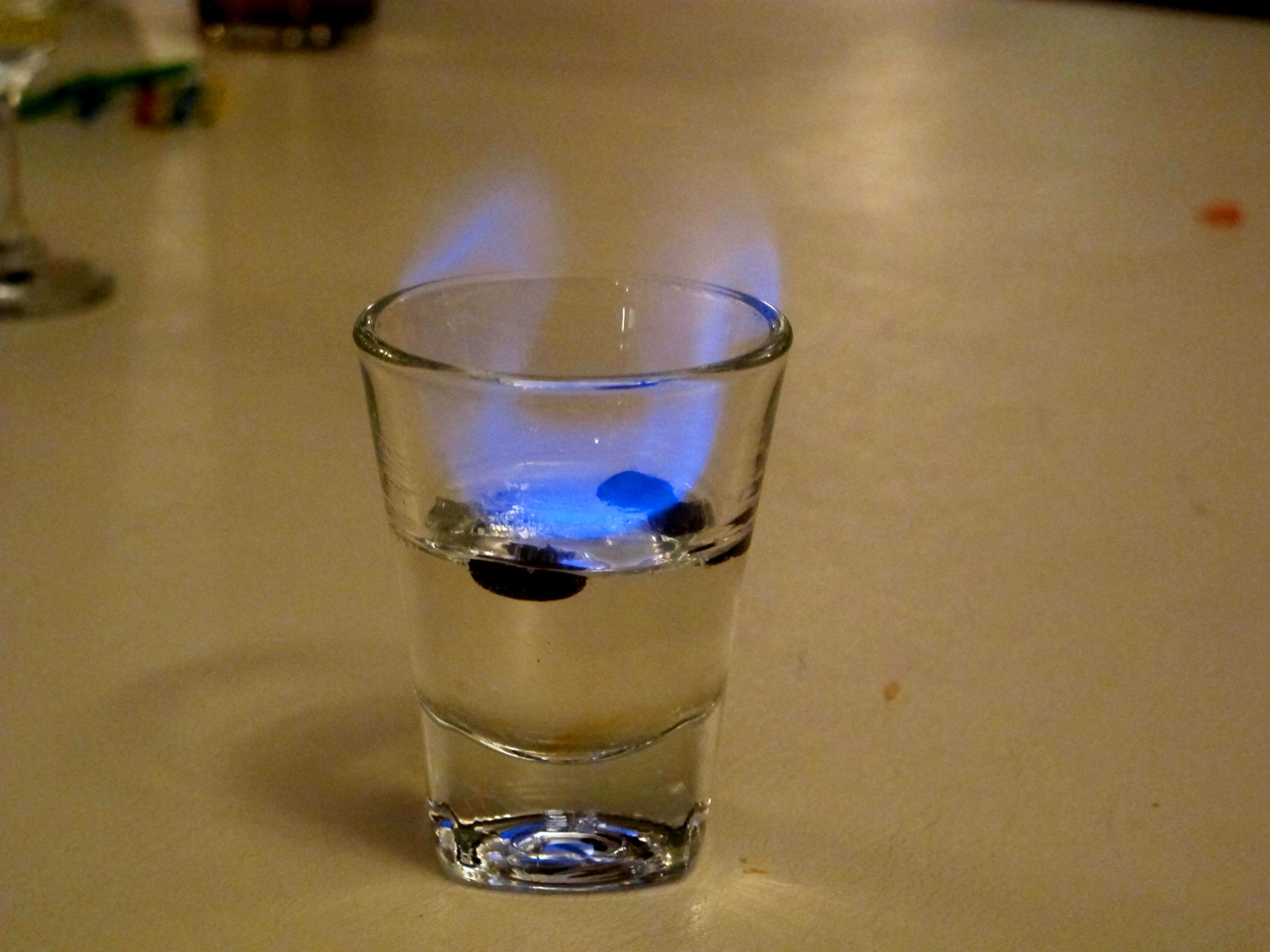 Sambuca con la mosca at a restaurant